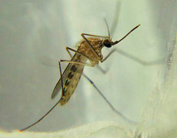 Female Culex pipiens mosquito